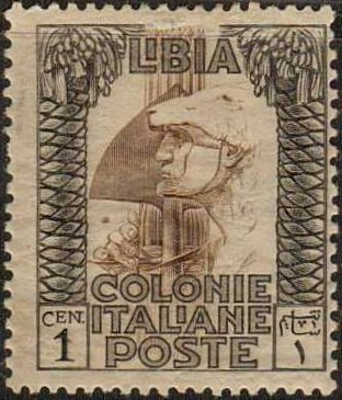 The first postage stamp of Italian Libya with an original design "Roman Legionary", 1c, 1921, Scott #20.